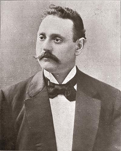 Банкир из Бендер Манус Игнатий Порфирьевич